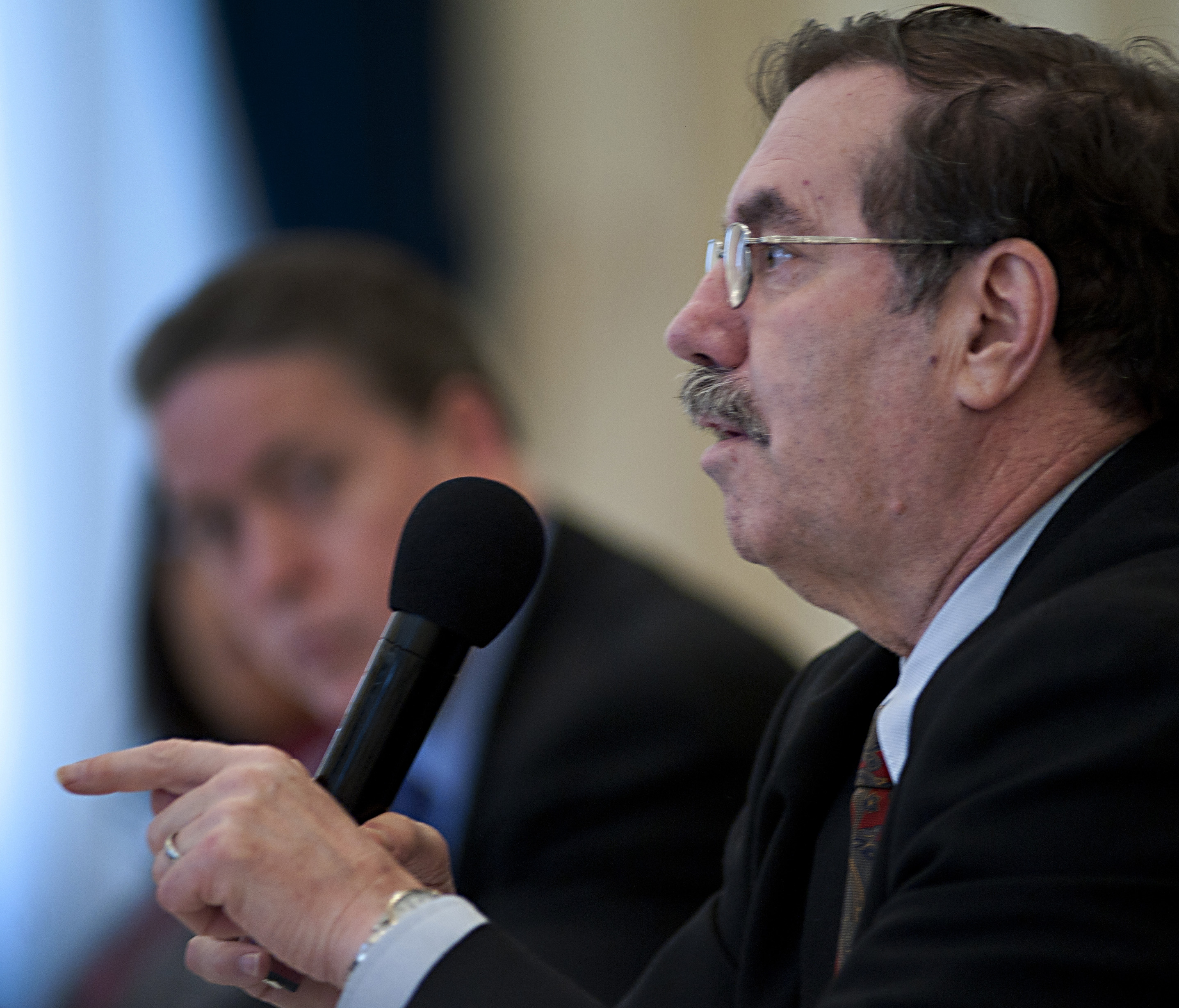 Leo Gerard, President of the International Steelworkers, discusses jobs with Agriculture Secretary Tom Vilsak during a round table event at Point Park University in Pittsburgh, PA, on Friday, September 16, 2011. (Photo by Christopher Rolinson/StartPoint Media, Inc.)